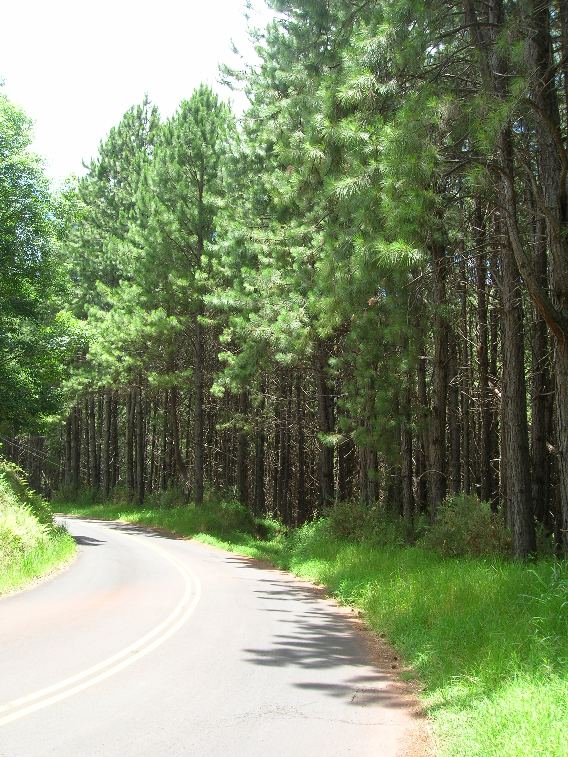 Pinus taeda (plantation). Location: Maui, Piiholo